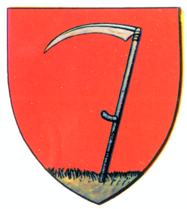 Interwar coat of arms of Botoșani County, Kingdom of Romania.